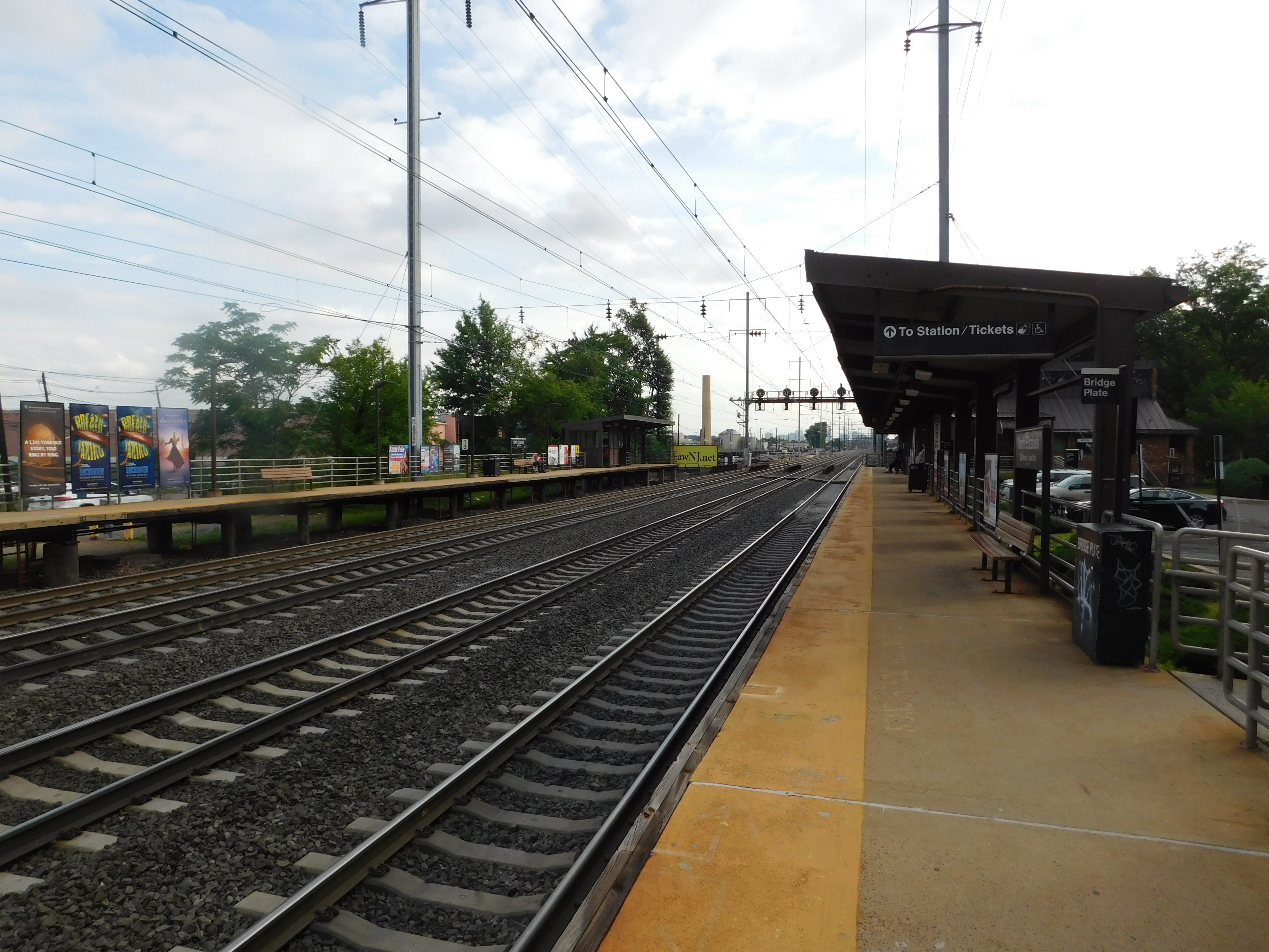 The North Elizabeth station for New Jersey Transit Rail Operations in June 2018.